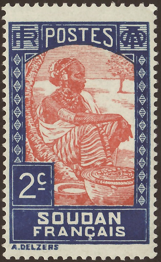 Stamp of French Sudan (contemporary Republic of Mali for the most part) as part of the federation of French West Africa ("Afrique Occidentale française" = A.O.F.); 1931; definitive stamp of the issue "Sudanese Woman"; drawing of a sitting Sudanese woman in native fashion inside of a West African savannah landscape; mint stamp with smooth gum Stamp: Michel: No. 61; Yvert et Tellier: No. 61 Color: blue / red orange Watermark: none Nominal value: 2 C (Centimes) Postage validity: from 9 March 1931 until ? Stamp picture size (printed area without below signature line): 22.0 x 35.0 mm